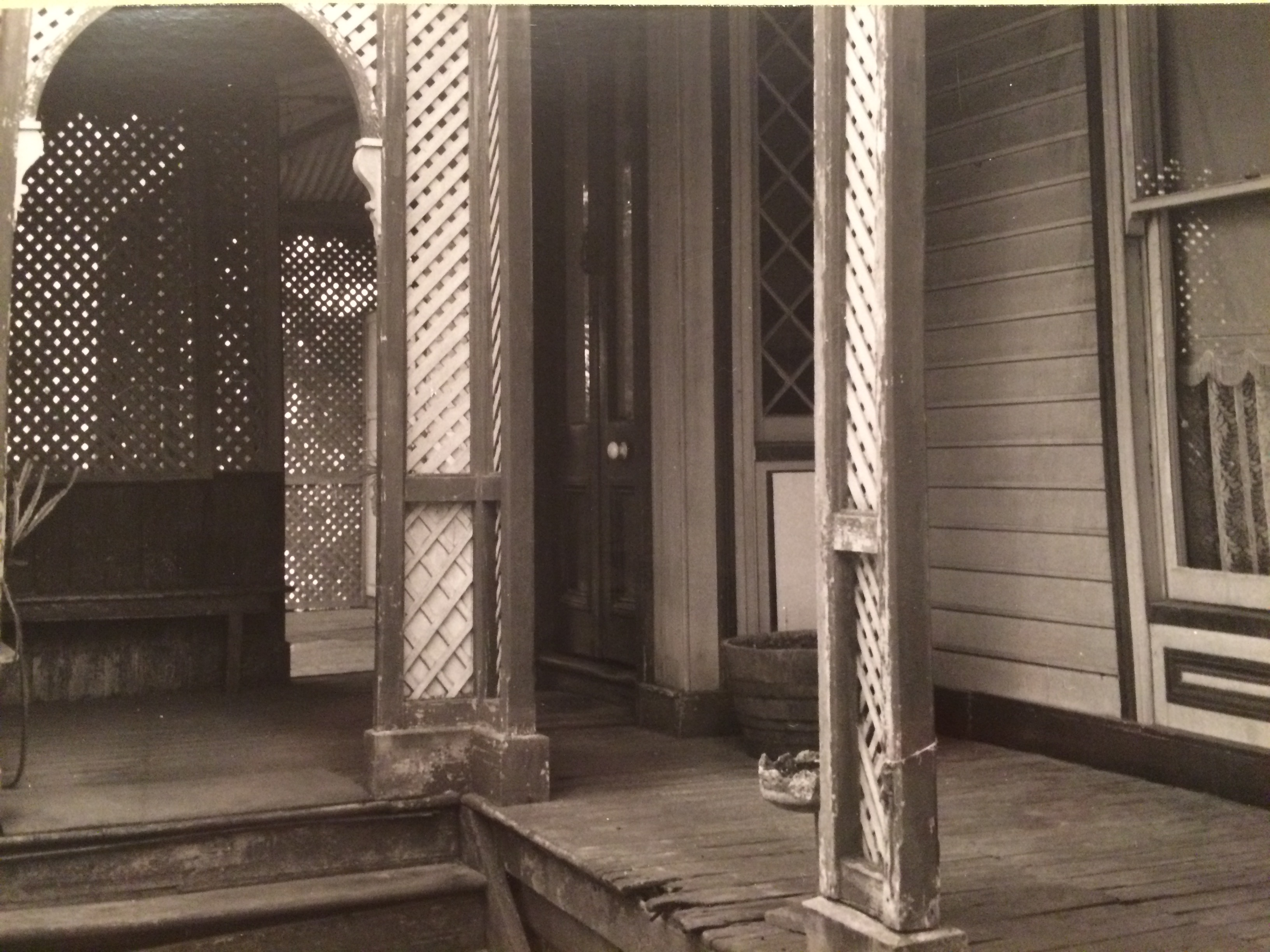 Entrance porch of The Grange, Soldiers Hill, Ballarat, Victoria, Australia